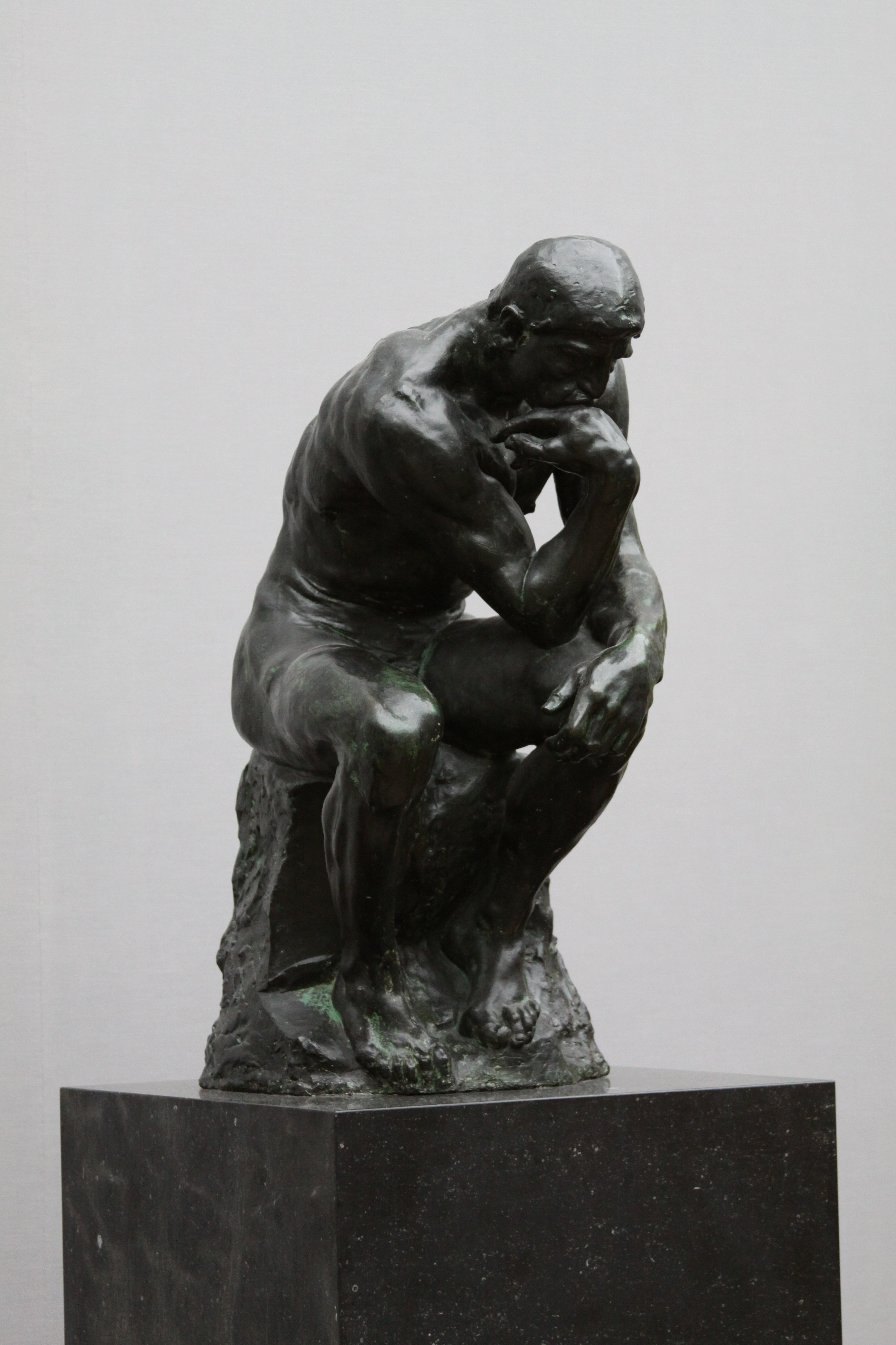 The Thinker (1881-1883), by Auguste Rodin, at the Alte Nationalgalerie in Berlin.